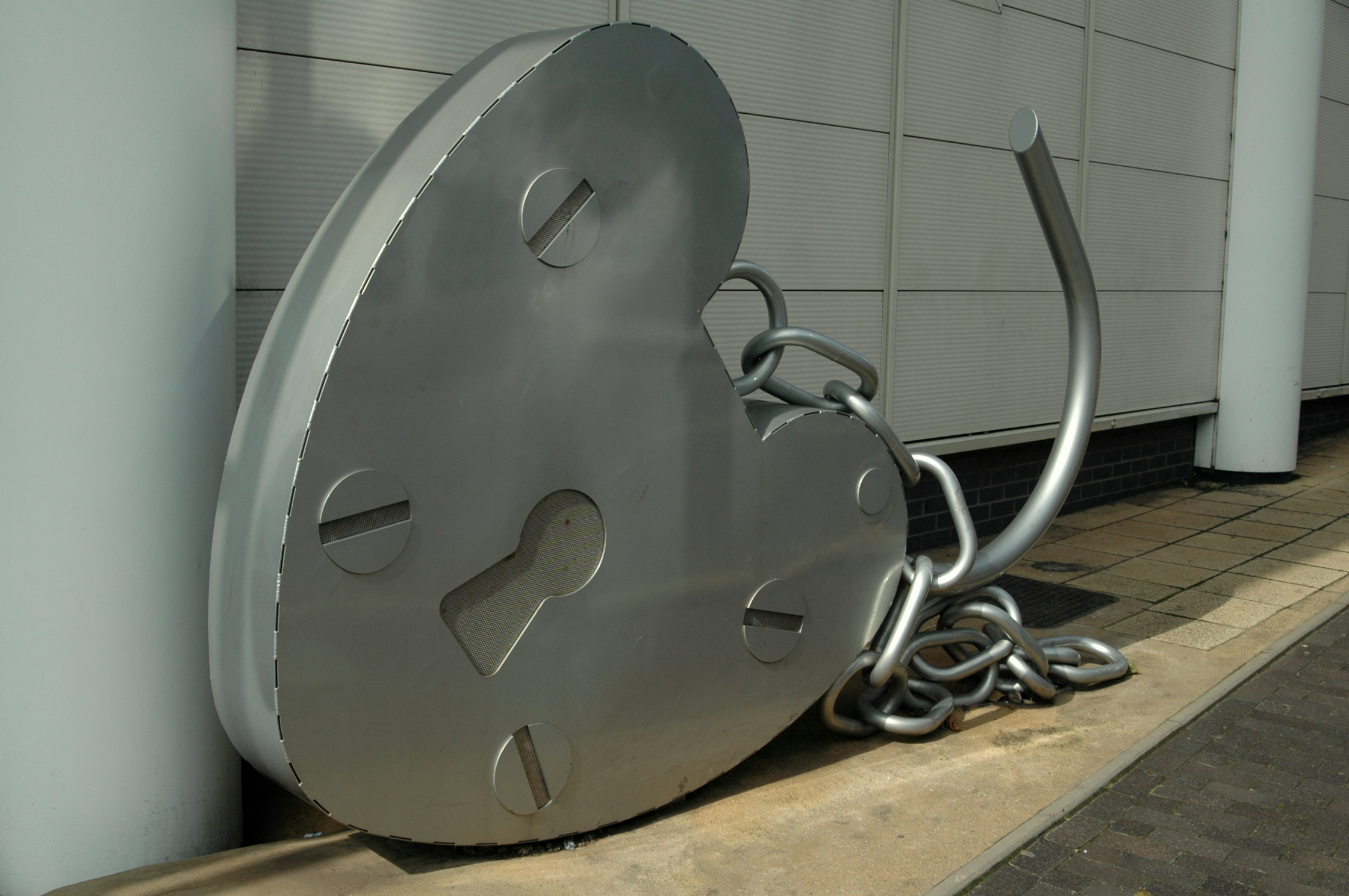 This is the start of the Charm Bracelet Trail in the Jewellery Quarter, Birmingham. This large lock is located at the bottom of Newhall Hill and illuminates at night.